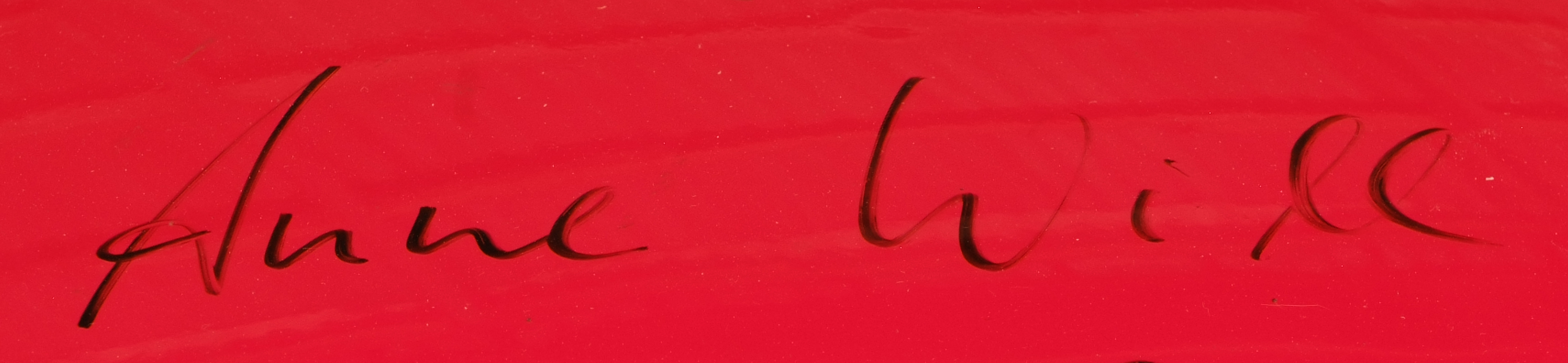 Signature on a Volkswagen Beetle 1200, 1985 model. The car has been in duty in the book project „Stippvisite – ein Volkswagen Käfer fährt durch Deutschland“ from 2002 until 2003